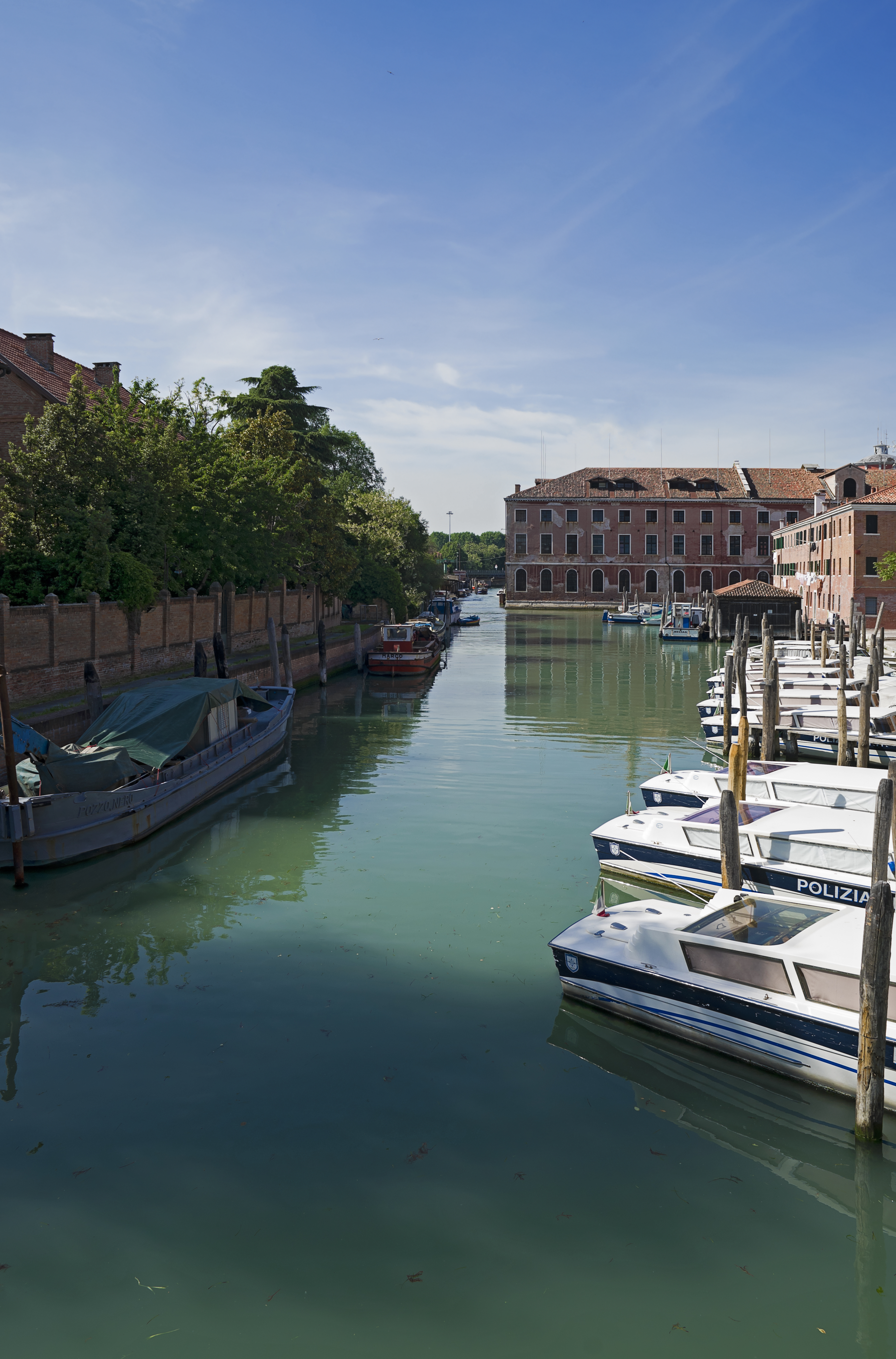 Rio di Santa Maria Maggiore Venice.